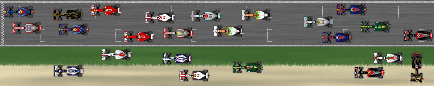 race result of 2011 Malaysian Grand Prix in Sepang